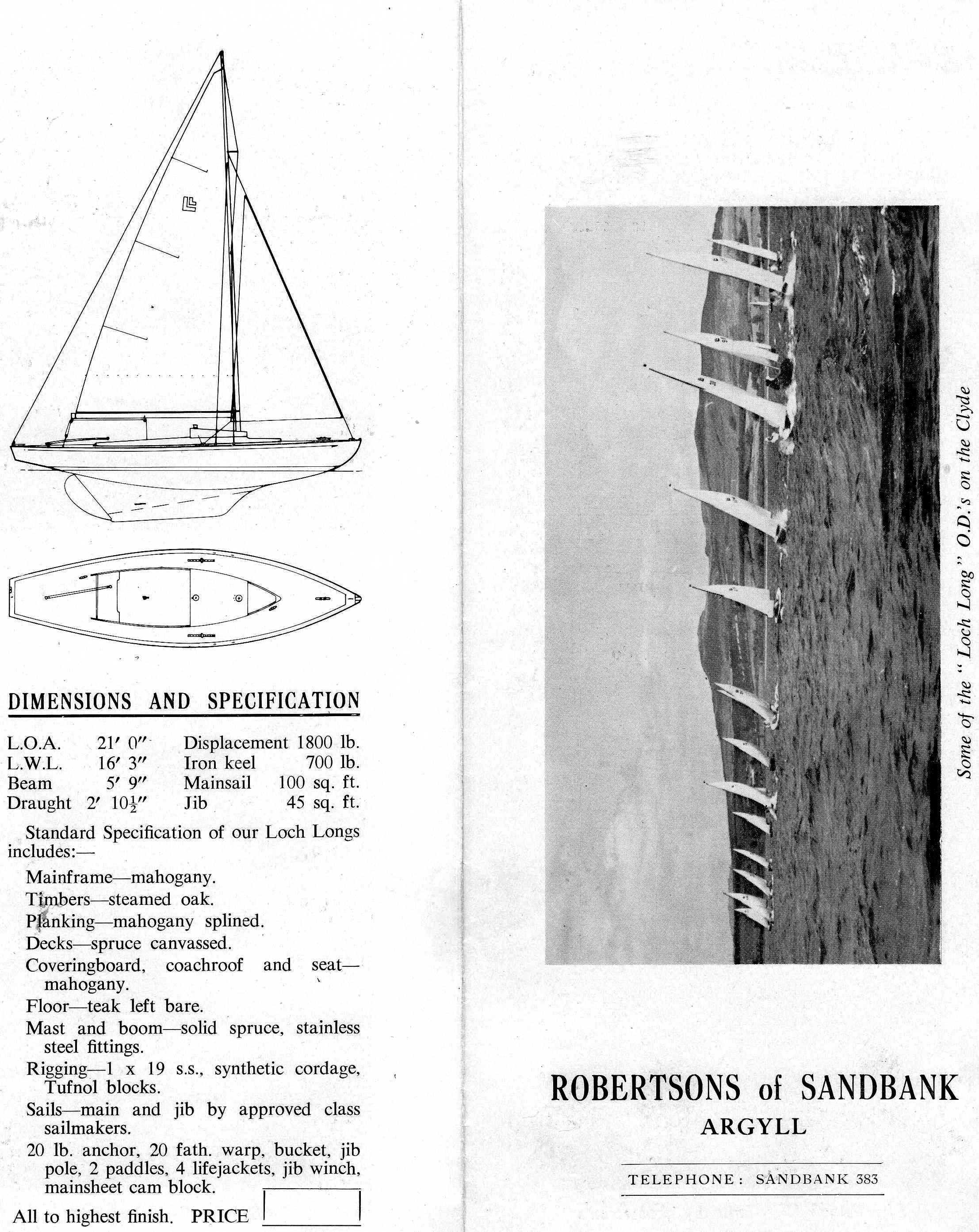 Loch Long brochure, circa 1965